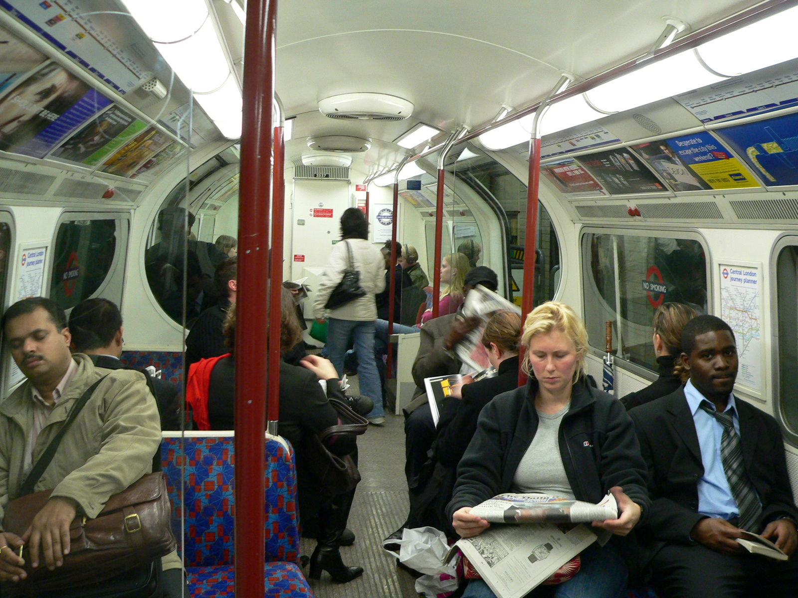 The interior of a London Underground 1972 tube stock Bakerloo Line train at Paddington station on 24 October 2005.